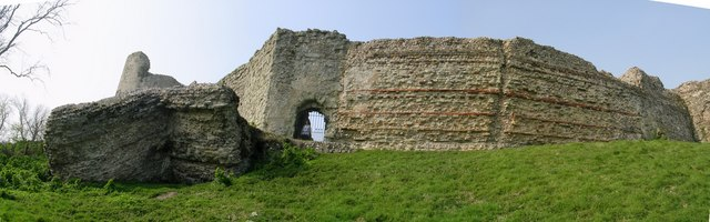 Pevensey Castle, Pevensey, East Sussex. A panoramic shot looking up at the South East wall from down in the dry moat. A large piece of fallen masonry dominates the left foreground.